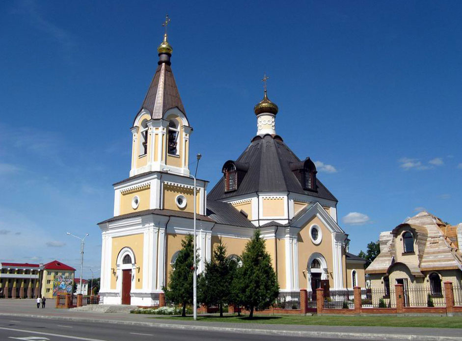 Cathedral of the Assumption (1842)